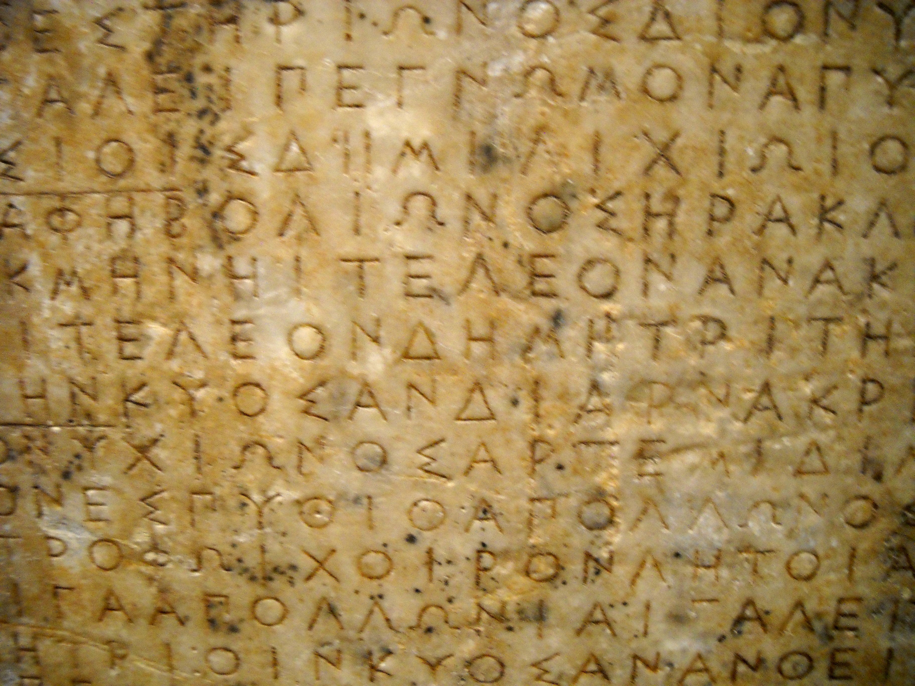 Religious Calendar of Thorikos (Greek, 440-430 BC) - Listing sacrifices and offerings to be made each month. E.g., in Anthesterion (February) a tawn or black baby goat is to be sacrificed to Dionysos.